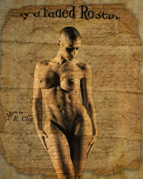 Faded Rose, an award winning work by Mark Laurie